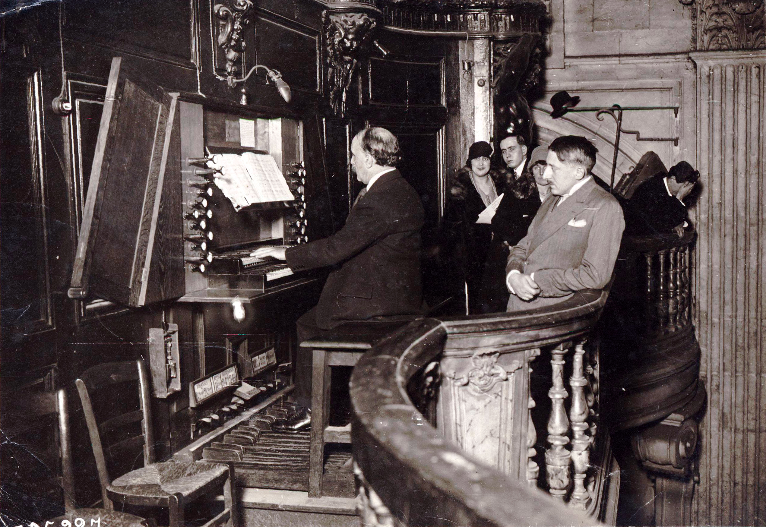 Inauguration de la restauration des orgues de St.-Nicolas du Chardonnet, le 8 décembre 1927. Aux claviers Louis Vierne; à droite, de profil, Paul-Marie Koenig, le facteur d'orgues ayant restauré l'instrument.